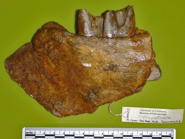 Xenastrapotherium kraglievichi